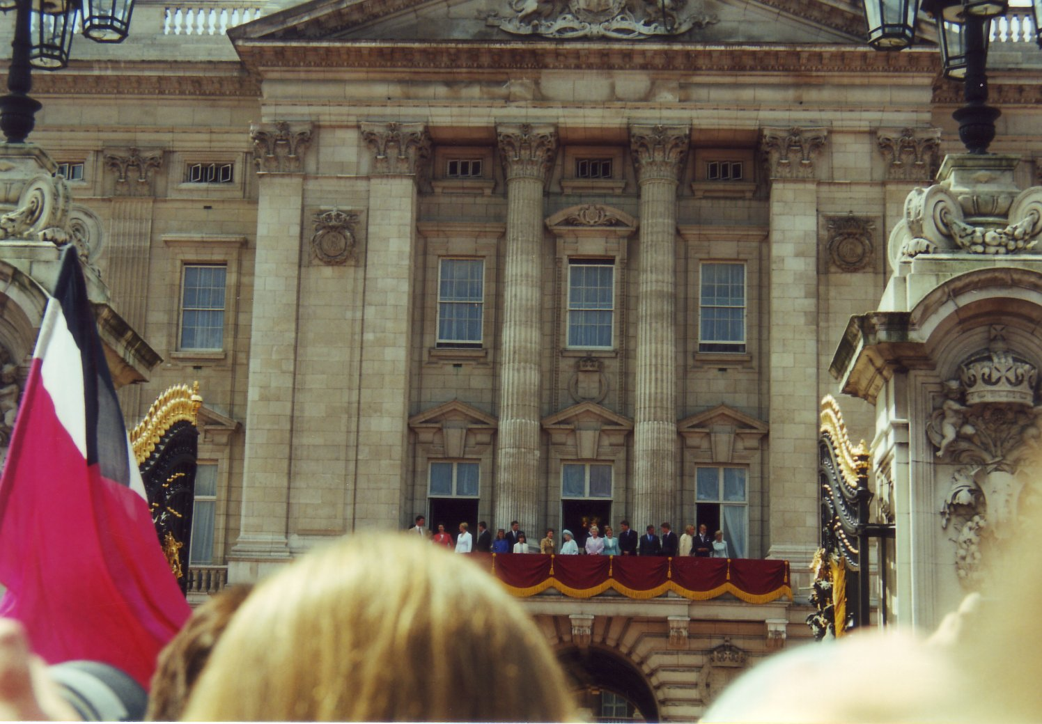 Royal family at the balcony of Buckingham Palace on the 100th birthday of Queen Mum, from German Wikipedia.